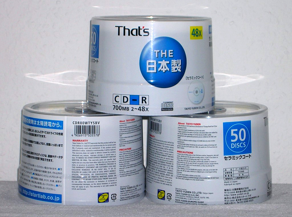 That's CD-R "CDR80WTYSBV" made by Taiyo Yuden.